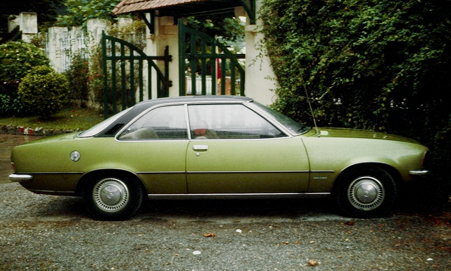 Opel Rekord D Coupe I thought originally this was an Opel Commodore coupé, on account of the black vinyl roof. I now think it is an Opel Rekord coupé (with a black vinyl roof) because belatedly I stopped to read the name on the side of the car. Charles01 (talk) 18:30, 9 March 2012 (UTC) (Photographer responsible)